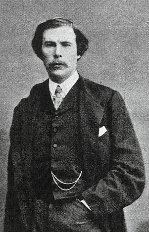 German Baron Stephan von Sarter, builder of Castle Dragon Castle near Königswinter/North Rhine-Westphalia